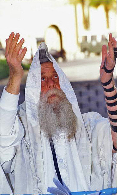 MORNING PRAYERS AT THE WESTERN WALL